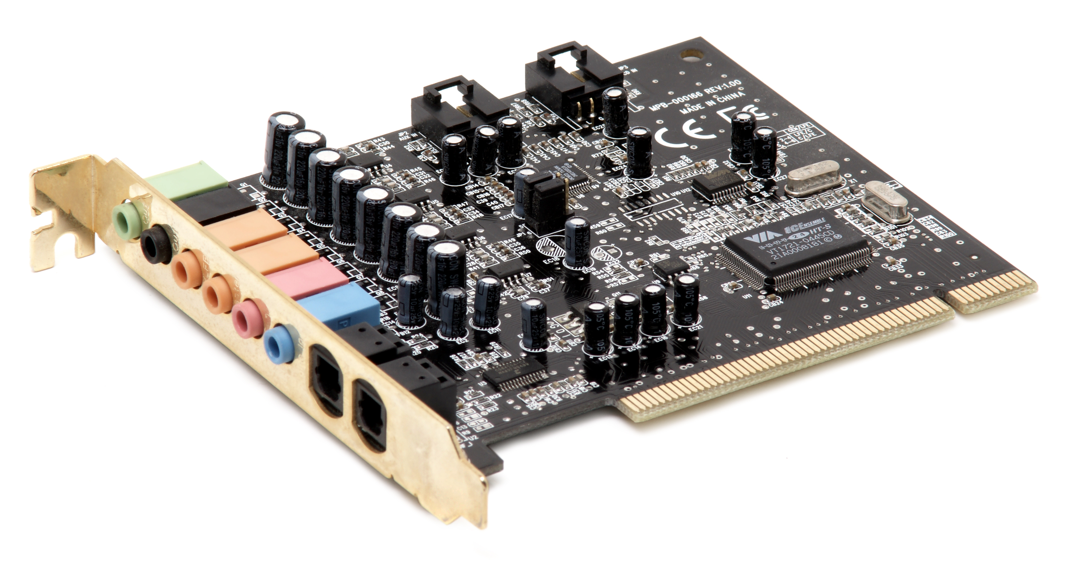 A Turtle Beach brand sound card for a PC. This specific model is the Catalina.